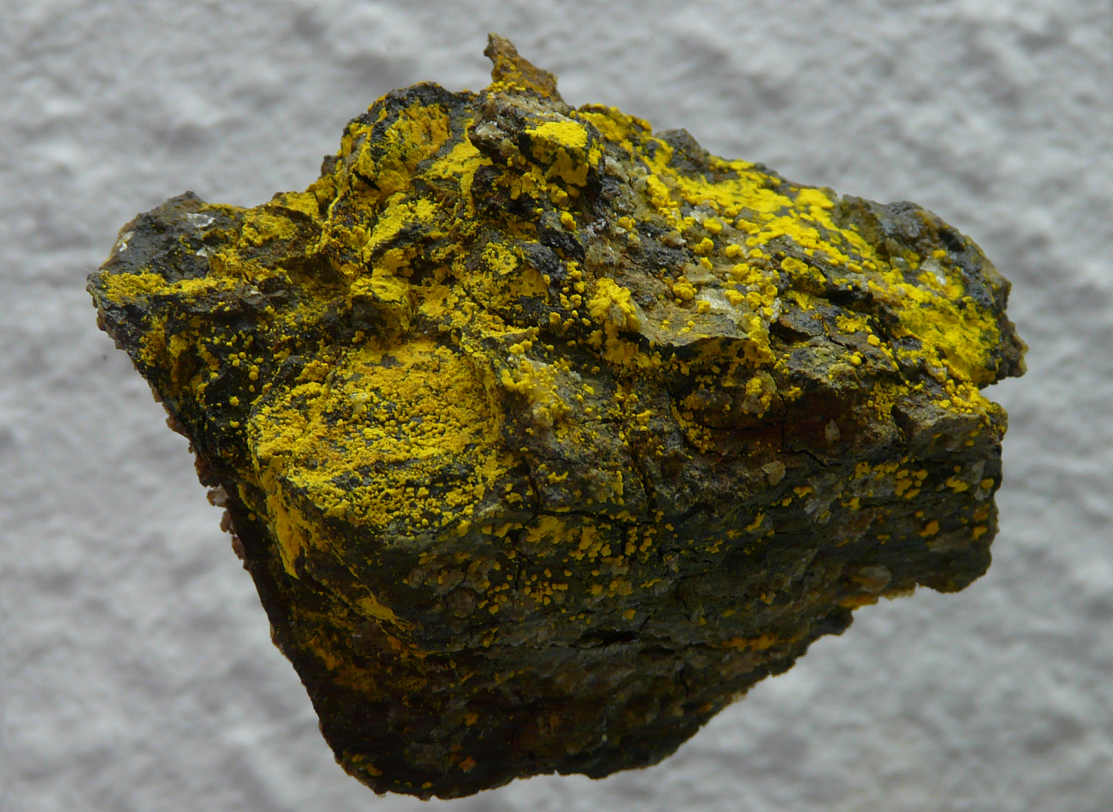 Natrozippeite, specimen width: 5.9cm Locality: Bukov Mine, Rozna, Czech Republic